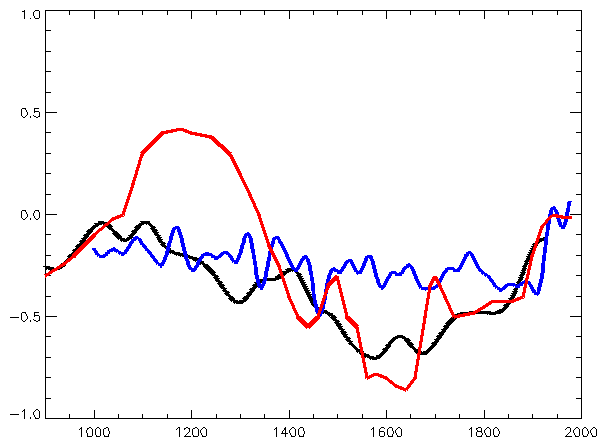 IPCC 1990, Mann 1999 and Moberg 2005 data overlaid. IPCC hand-digitised from IPCC 1990 figure 7.1c (note: it has been assumed that the tickmarks on the y axis are in units of °C and that the middle of the three represents zero). Mann from ftp://ftp.ncdc.noaa.gov/pub/data/paleo/contributions_by_author/jones2004/jonesmannrogfig5.txt Moberg from